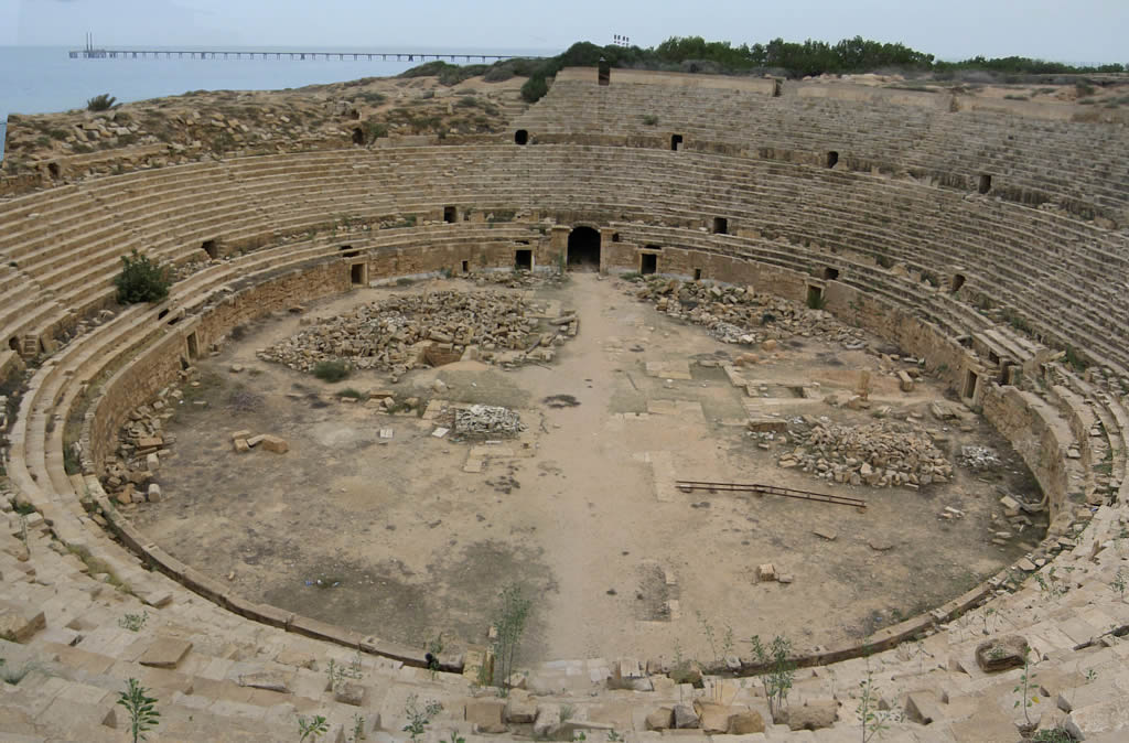 The ancient Roman Amphitheatre in Leptis Magna, nowadays Libya.